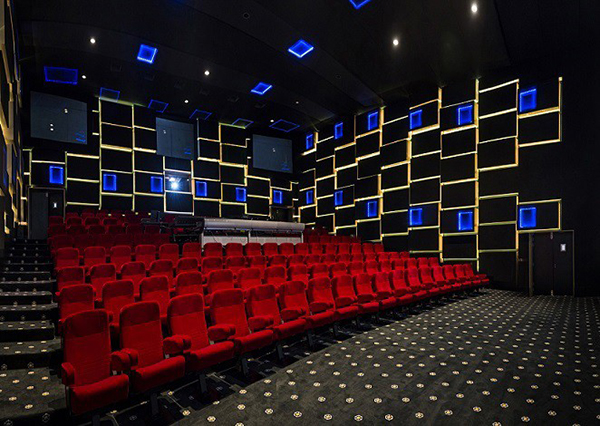 Aurothorium Auro 11.1 Dubbing stage at the Galaxy STudios